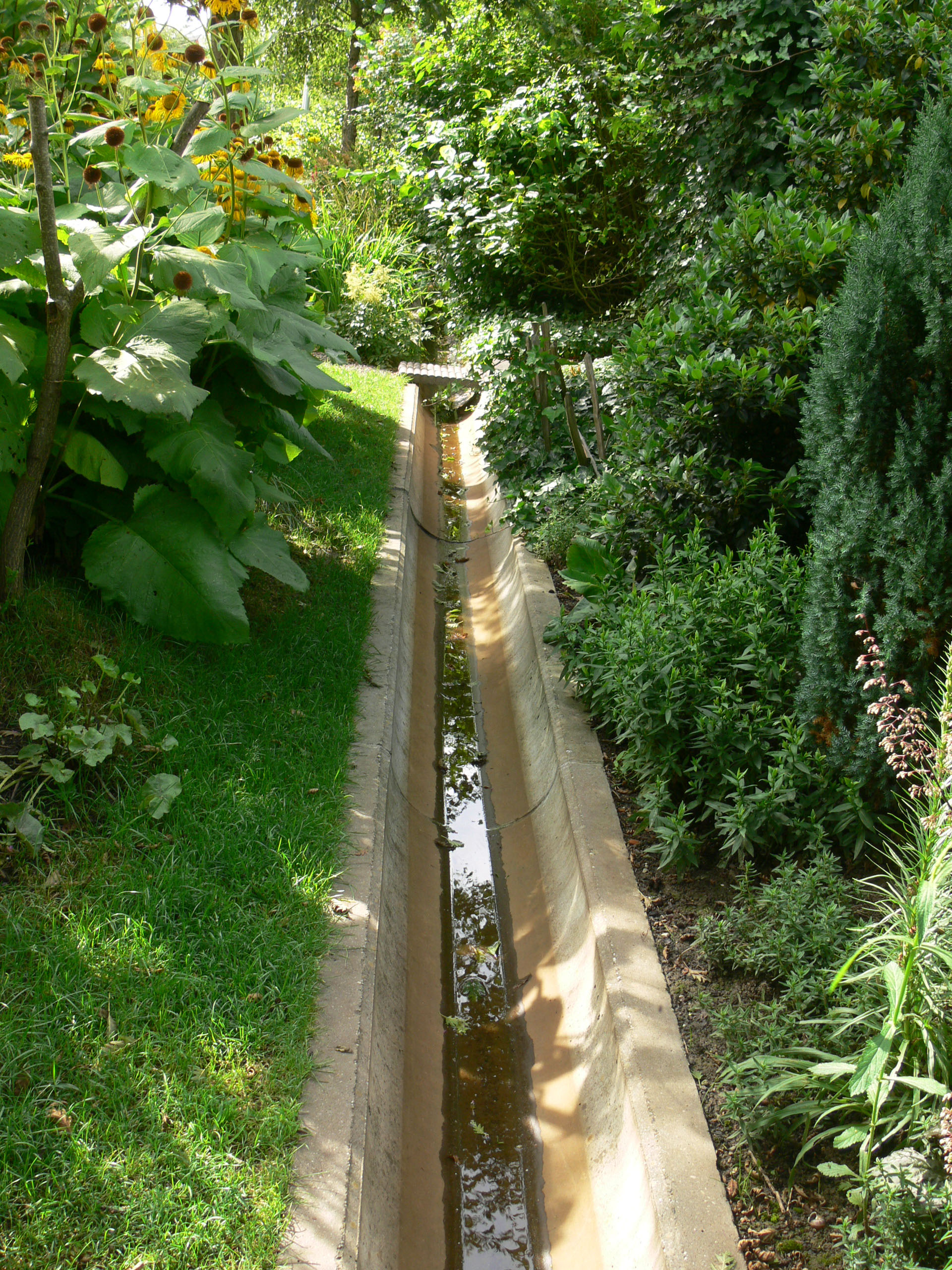 exemple of water collector in E.V.A. Lanxmeer district (a "green distric" named Lanxmeer, built at Culemborg, The Netherlands), wich is a recent (1994-2009) district (semi-public eco-building) of approximately 250 ecological houses, several offices and a urban farm. The project is based on "Sustainable Implant" with a spatial combinaison of natural systems, technical approach of integrated waste (wastewater) / energy system and écological and social purposes, for an urban neighborhood. The district is in an ecologically sensitive area (former drinking waterextraction and retention area). The conception of this district is based on permaculture, and organic design, a small biogas installation (able to treate black water and organic waste and garden & park waste), a combined Heat Power. Some houses are in closed greenhouse. A semi-public building (the ‘EVA Centre) should yet be made, based on the Living Machine concept.